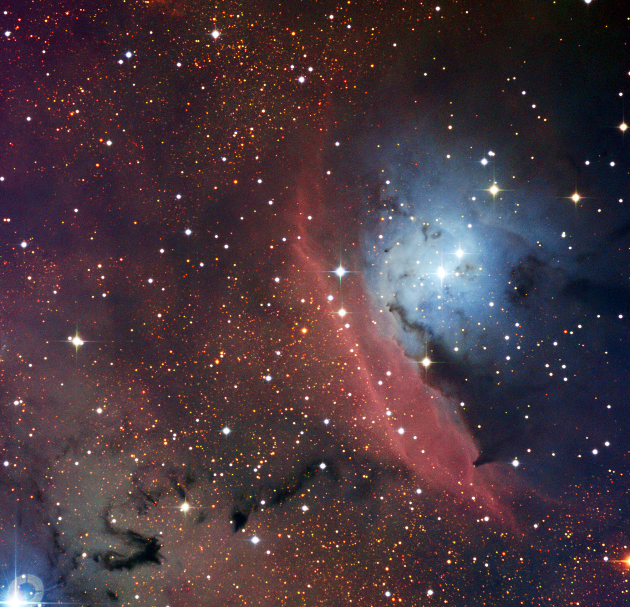 The Danish 1.54-metre telescope located at ESO’s La Silla Observatory in Chile has captured a striking image of NGC 6559, an object that showcases the anarchy that reigns when stars form inside an interstellar cloud. This region of sky includes glowing red clouds of mostly hydrogen gas, blue regions where starlight is being reflected from tiny particles of dust and also dark regions where the dust is thick and opaque.